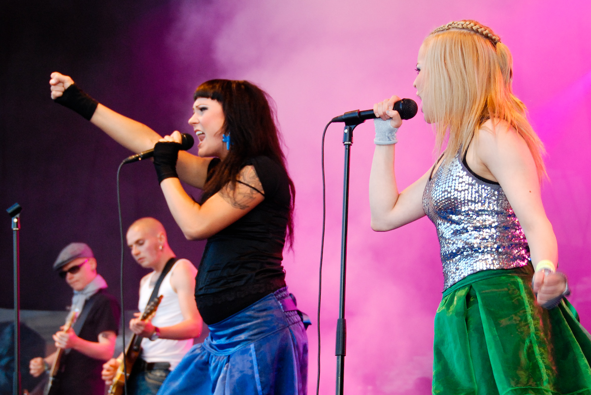 PMMP performing at the Ilosaarirock 2007 festival.